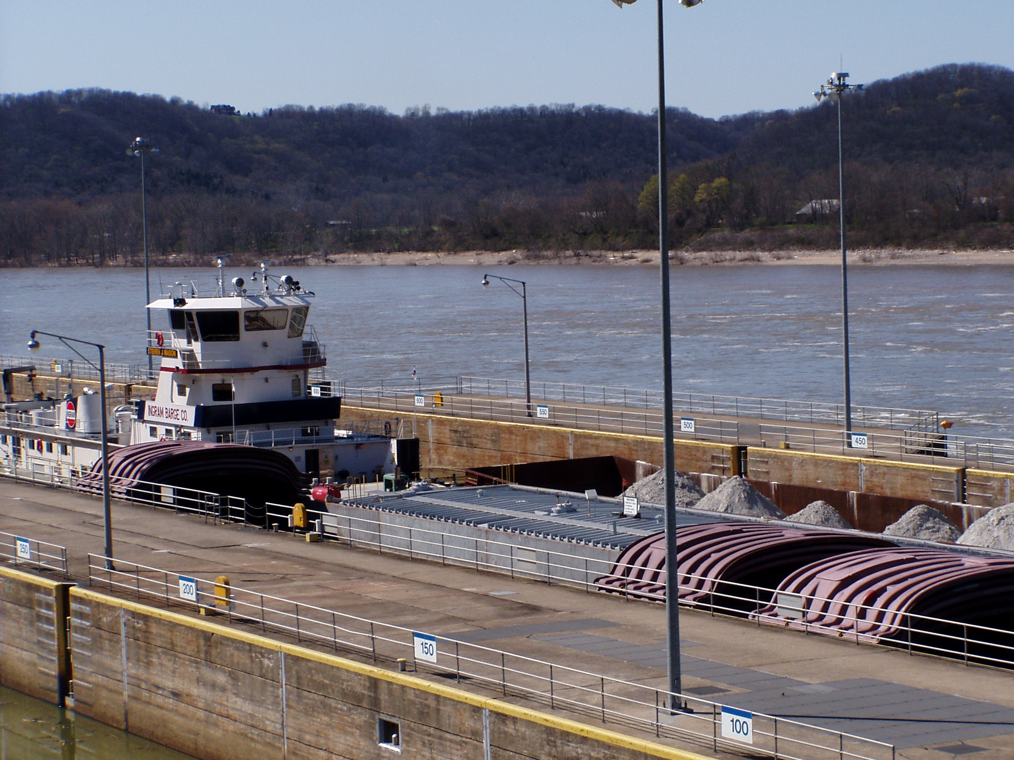 Tug and barge locking through the Markland Locks